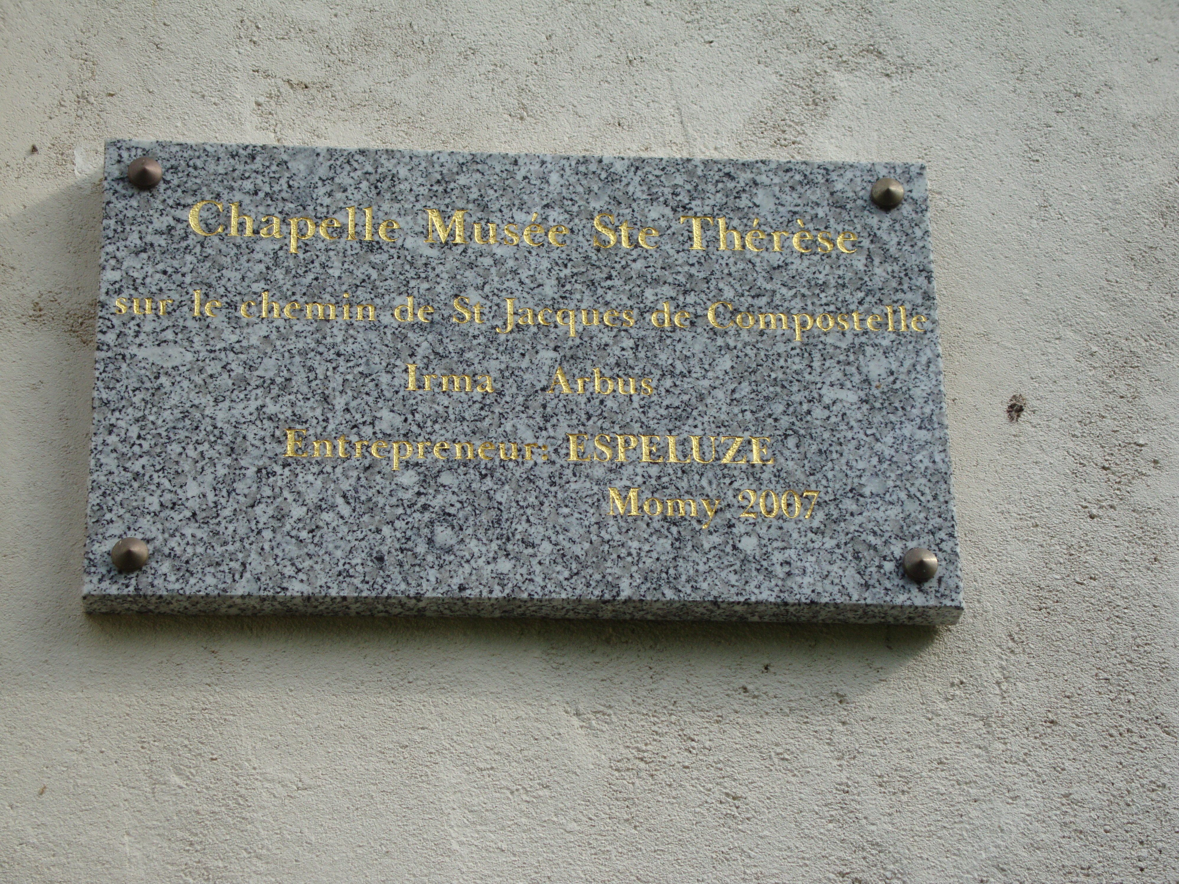 Momy (Pyr-Atl, Fr) Plaque way of Saint James